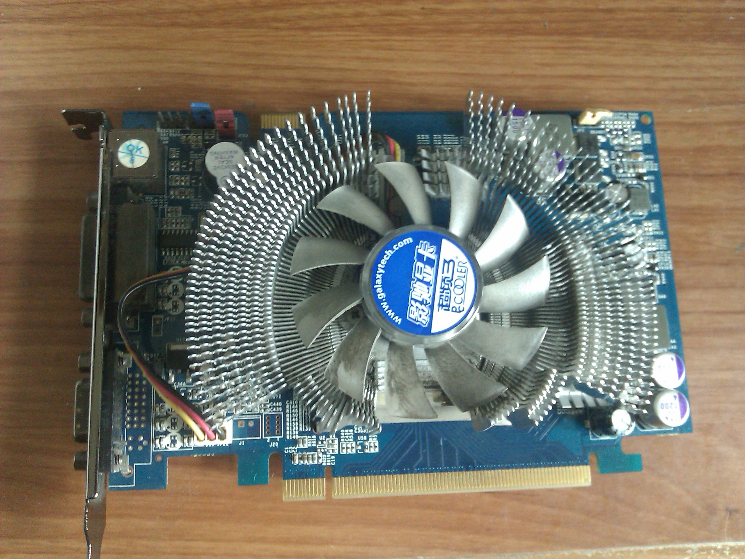 Galaxy NVIDIA GeForce 8600GT